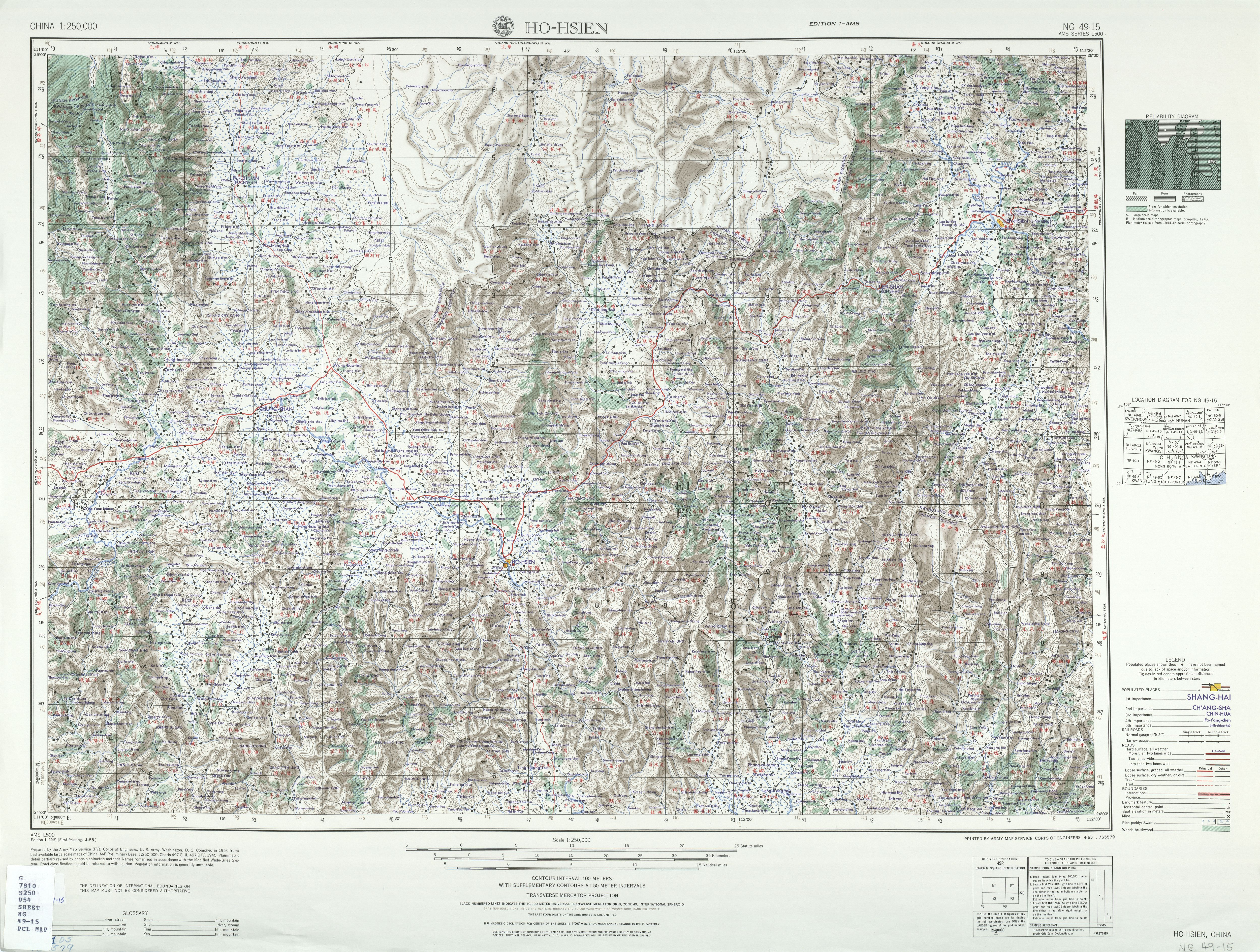 China AMS Topographic Maps